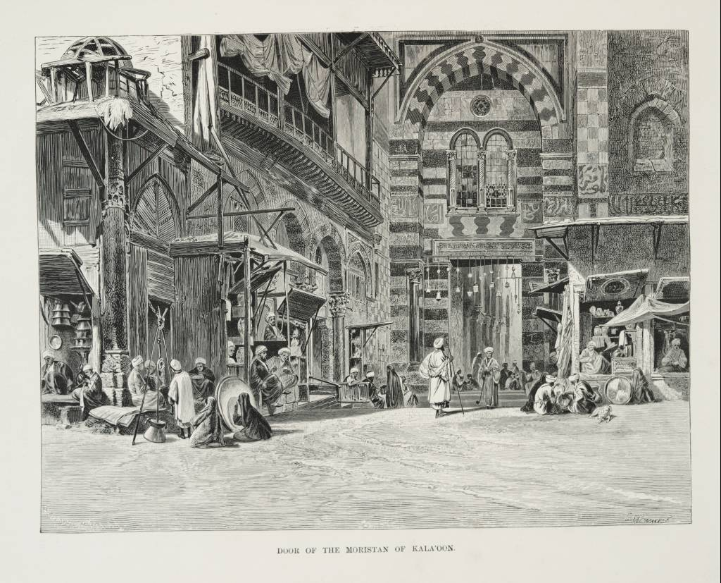 Door of the Moristan in Kala'oon, with many people selling things, or sitting nearby.